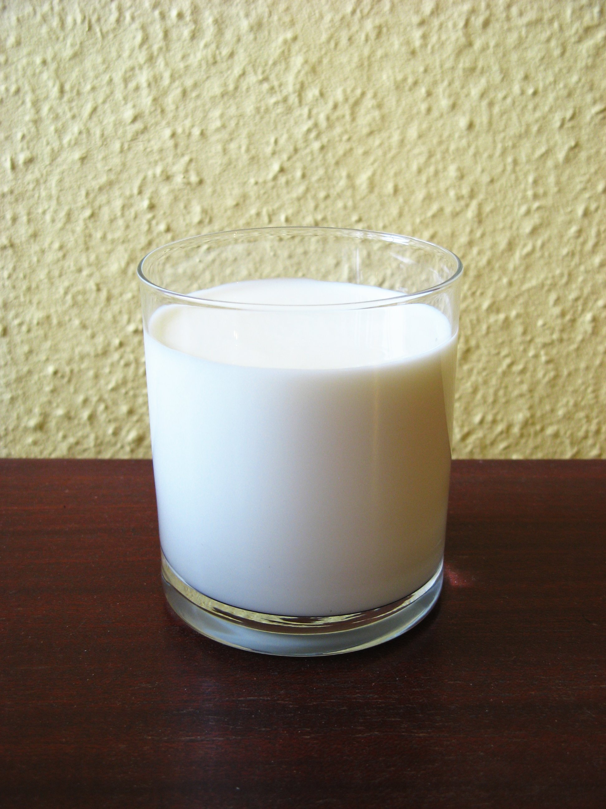 A glass of milk